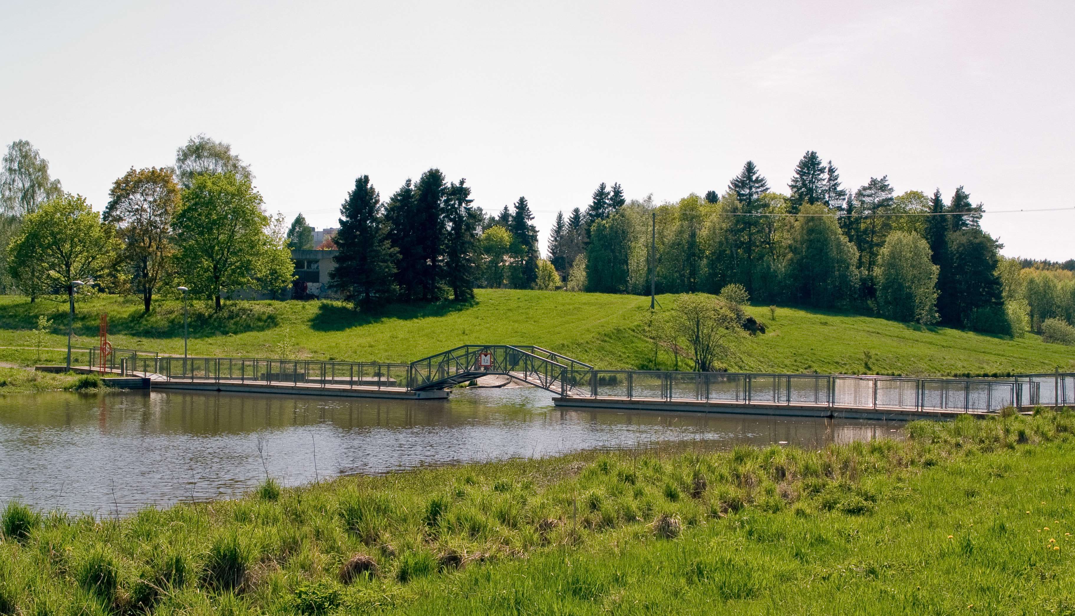 Pontoon bridge over Aurajoki river from Halinen to Kurala. This bridge replaced the "kampiföri" winch operated ferry which never worked.